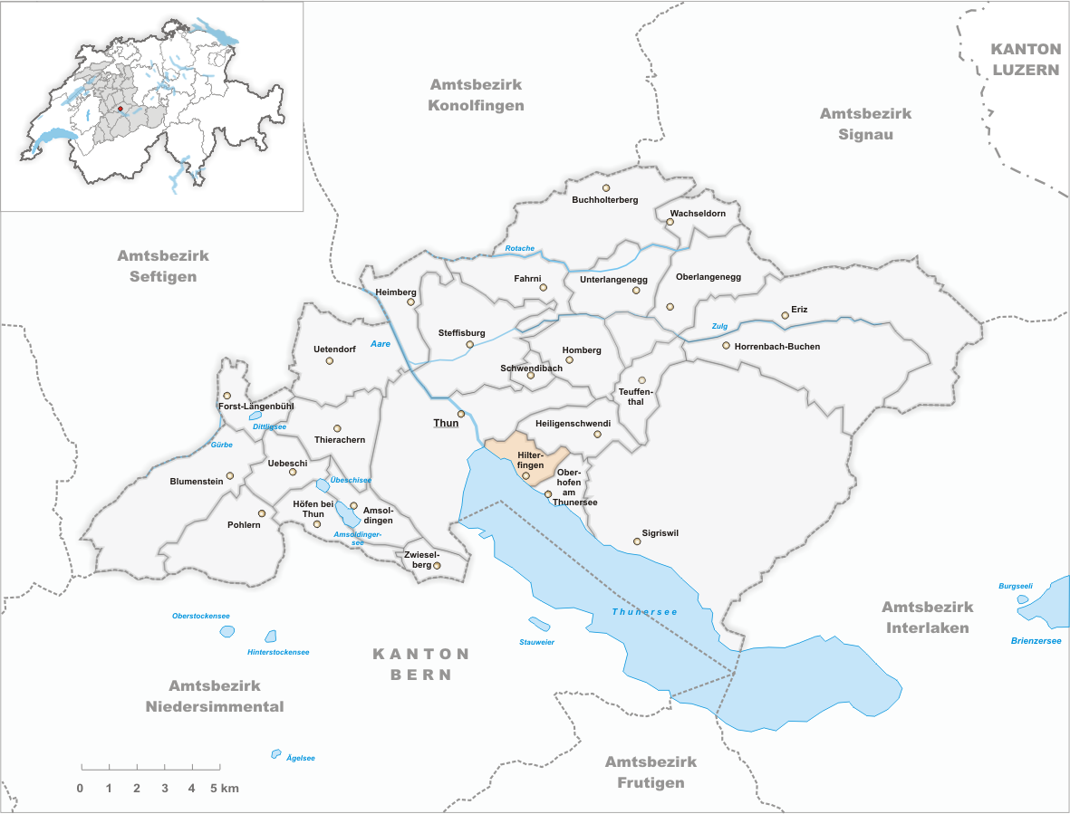 Municipality Hilterfingen